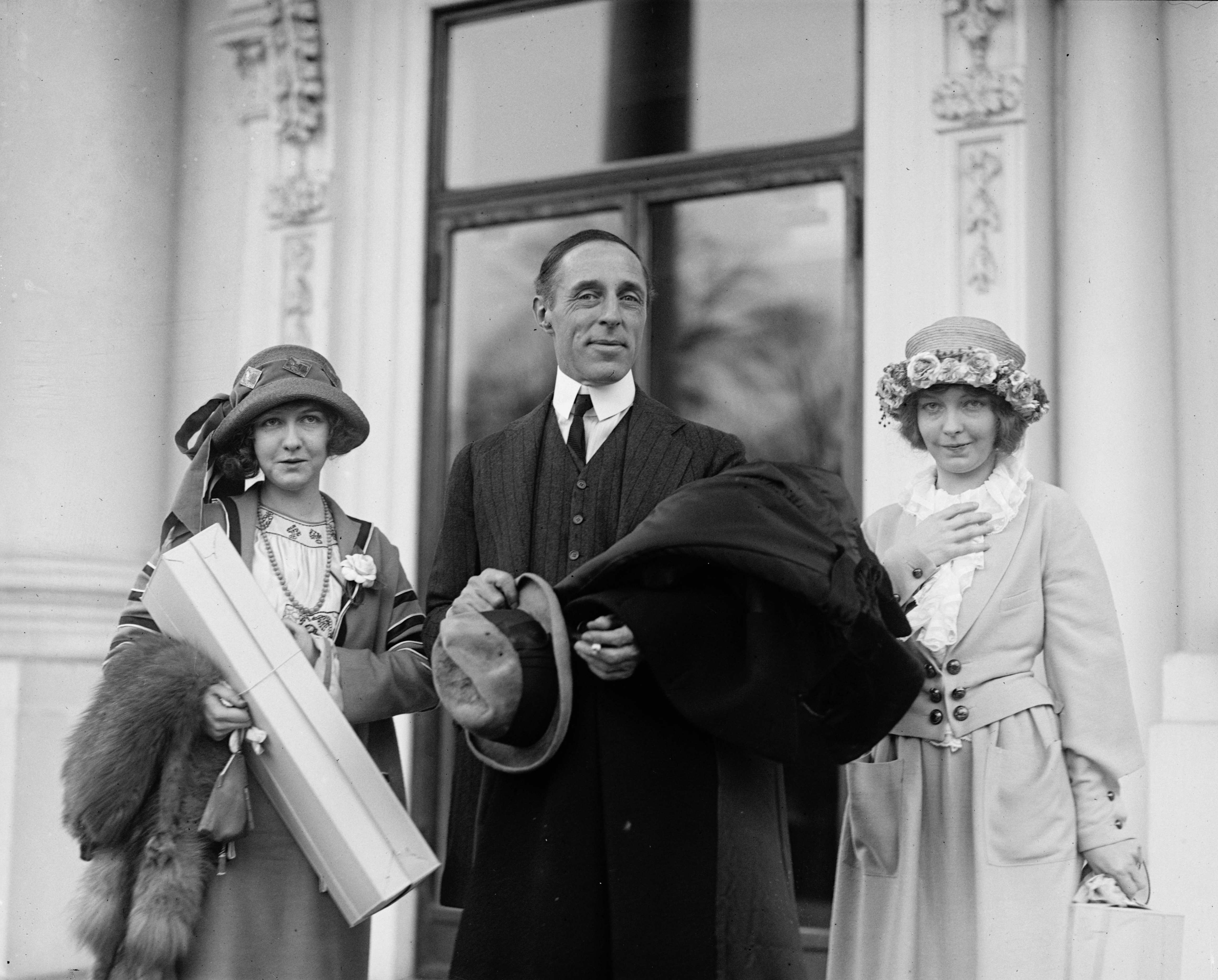 Dorothy & Lillian Gish, D.W. Griffith